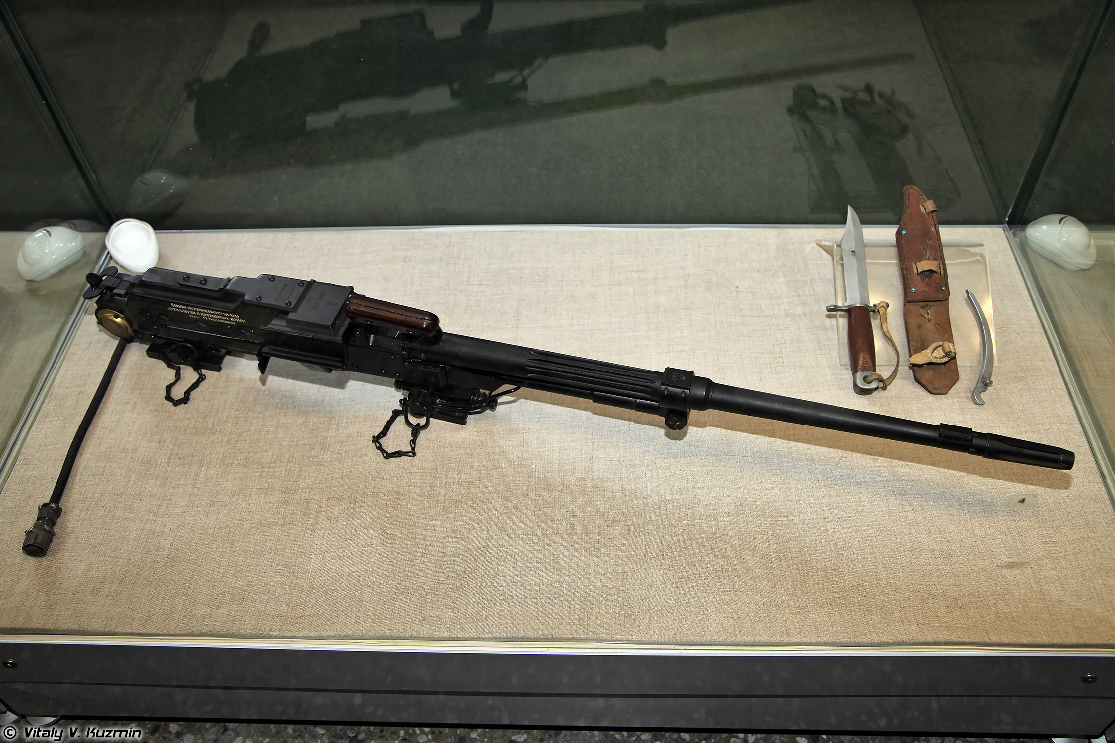 7.62mm tank machine gun PKT 1962